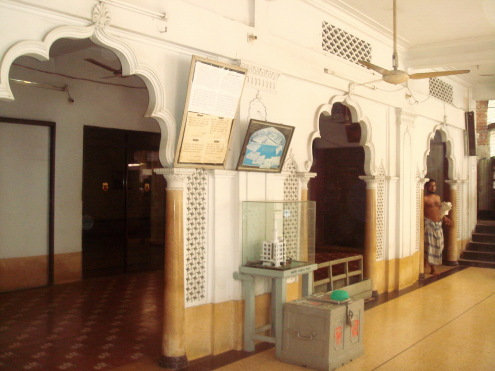 Churihatta Mosque of Old Dhaka.